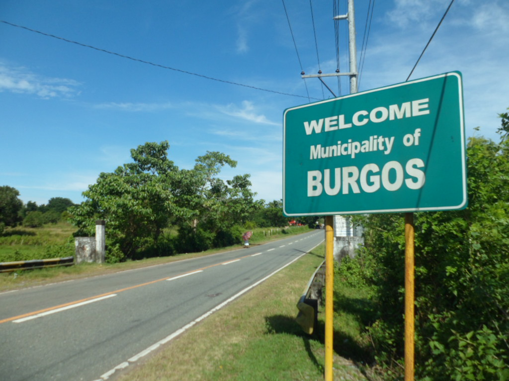 Welcone Burgos